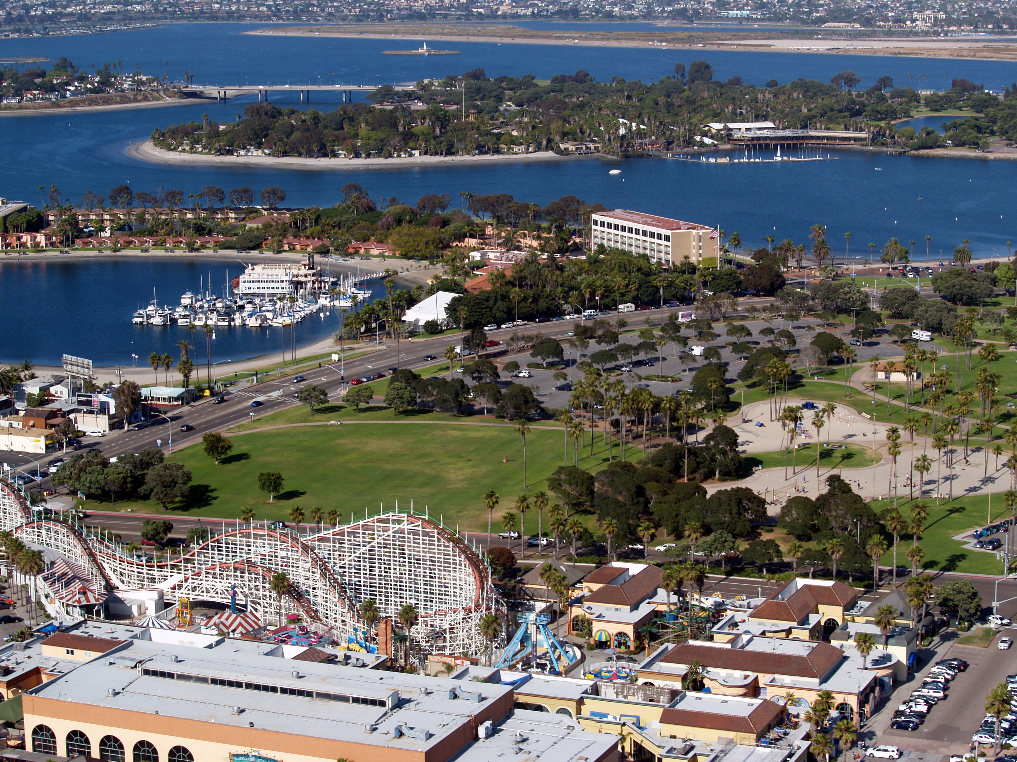 A photo of Mission Bayin San Diego, California looking to the east-northeast. Visible are the Giant Dipper Roller Coaster, Bonita Cove, Bahia Point, Vacation Island and Fiesta Island. Please acknowledge "Phil Konstantin" as the creator of this photograph.